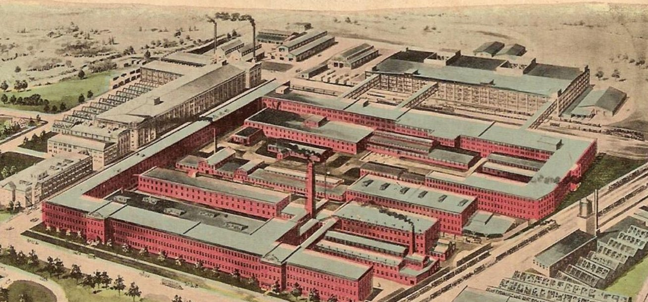 crop : Postcard picture: aerial view of Willys-Overland Co. factory in Toledo, Ohio, postmarked 1915. Store Web page states: "advertising postcard of the Willys-Overland Co. factory in Toledo Ohio. This is a birdseye view of the factory." Web page shows view of address side of postcard with clear postmark: Toledo, Ohio, August 8, 1915